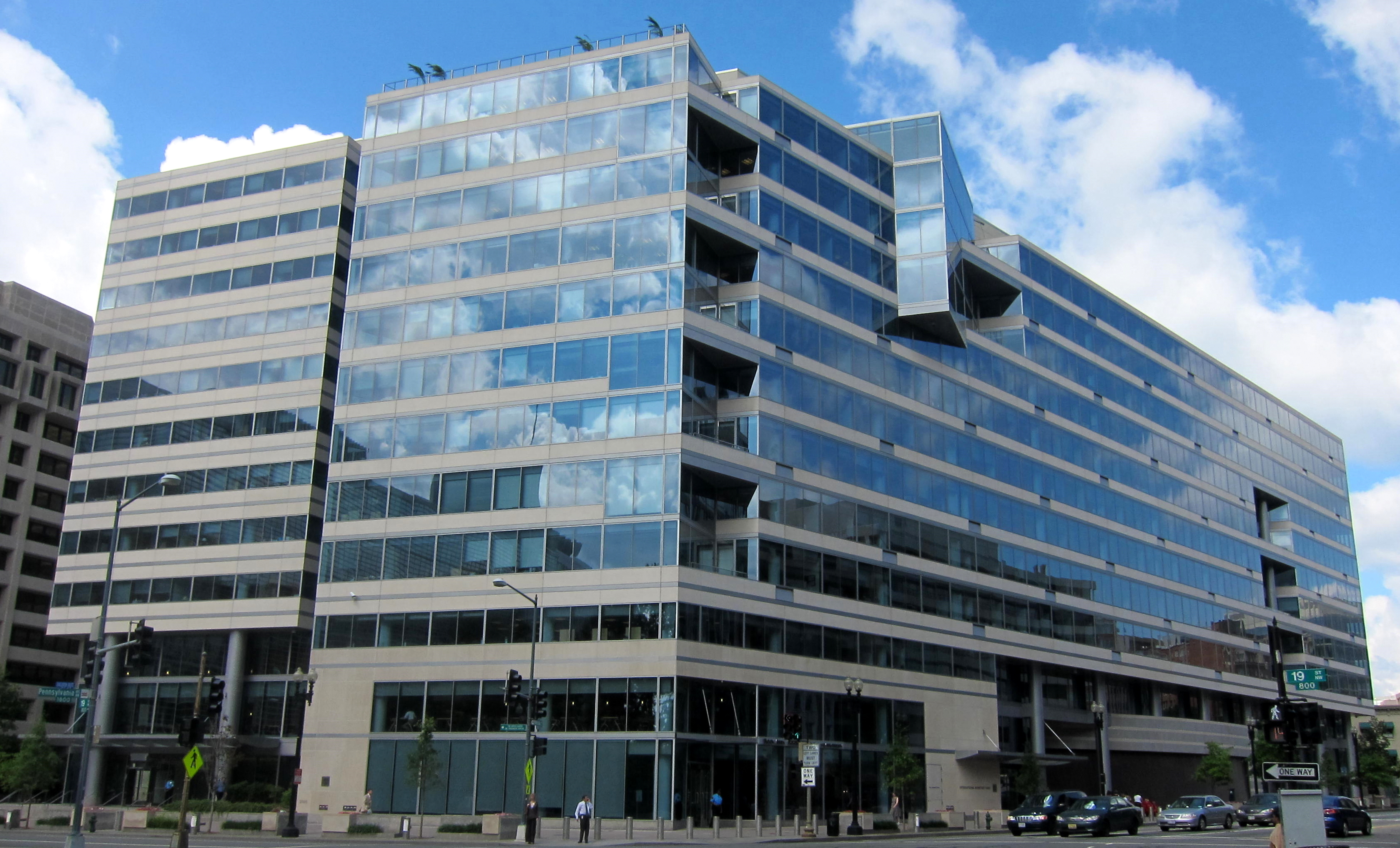 The International Monetary Fund (Headquarters 2) located at 1900 Pennsylvania Avenue, N.W., in the Foggy Bottom neighborhood of Washington, D.C. The 12-story, postmodern high-rise was built in 2005 to the designs of Pei Cobb Freed & Partners.